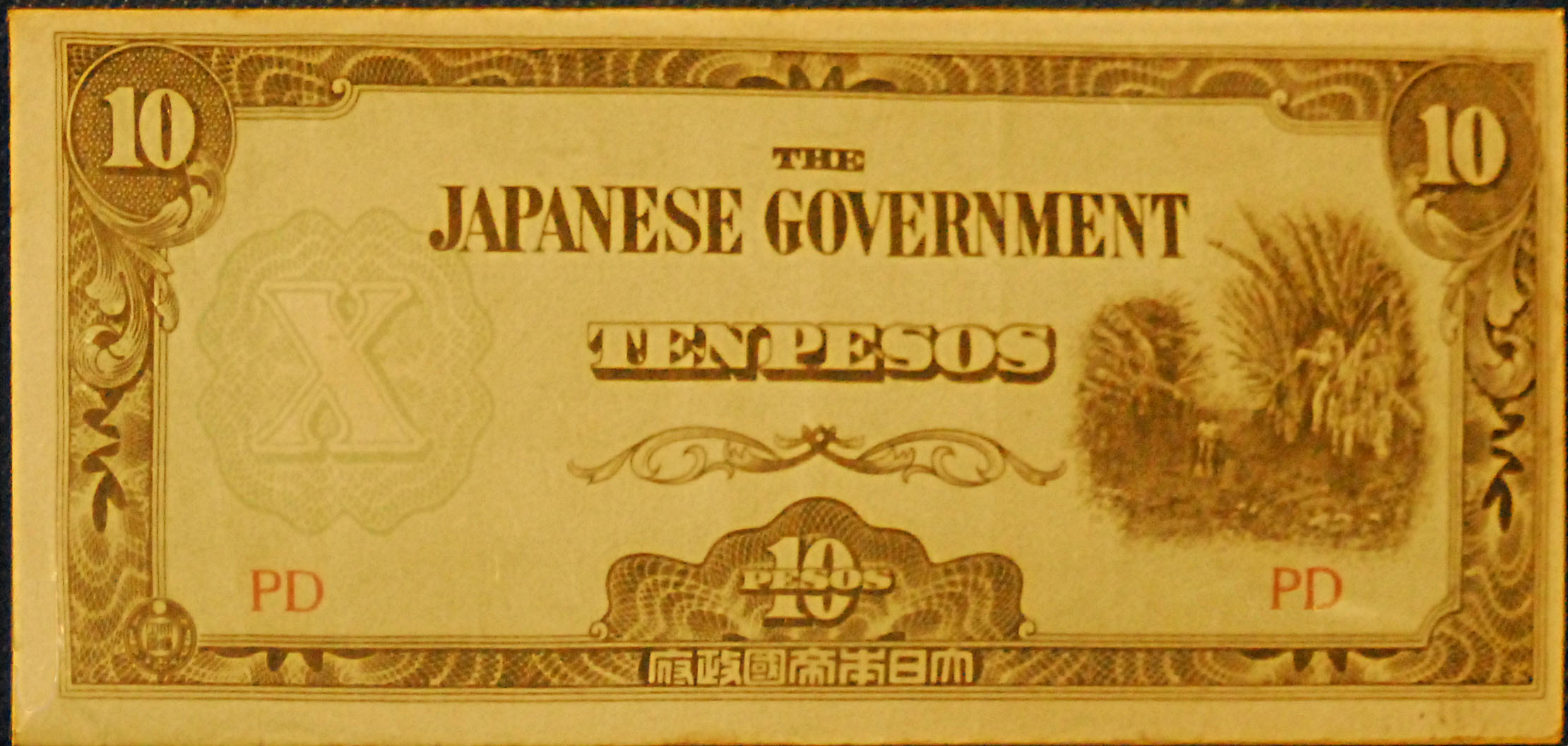 Japanese 10 Peso Note- Philippines occupation currency